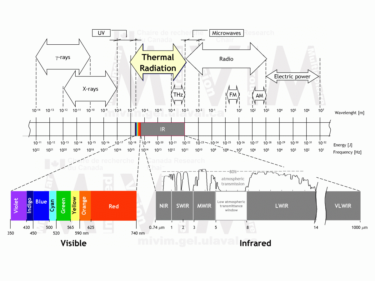 The infrared bands in the infrared spectrumé